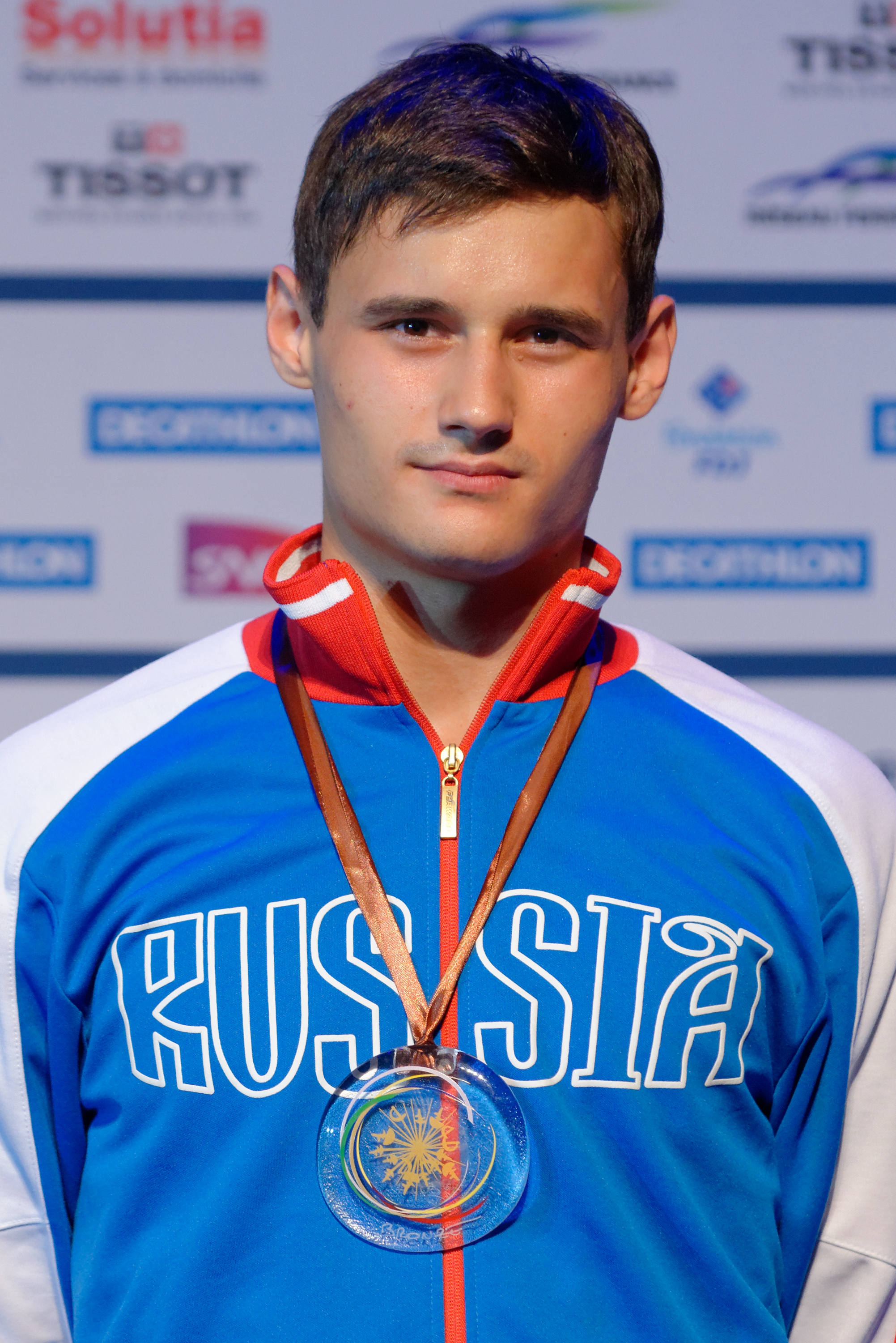 Russia's Timur Safin pose with his bronze medal medal in team men's foil at the award ceremony of the European Fencing Championships at Rhénus Sport in Strasbourg on 13 June 2014.